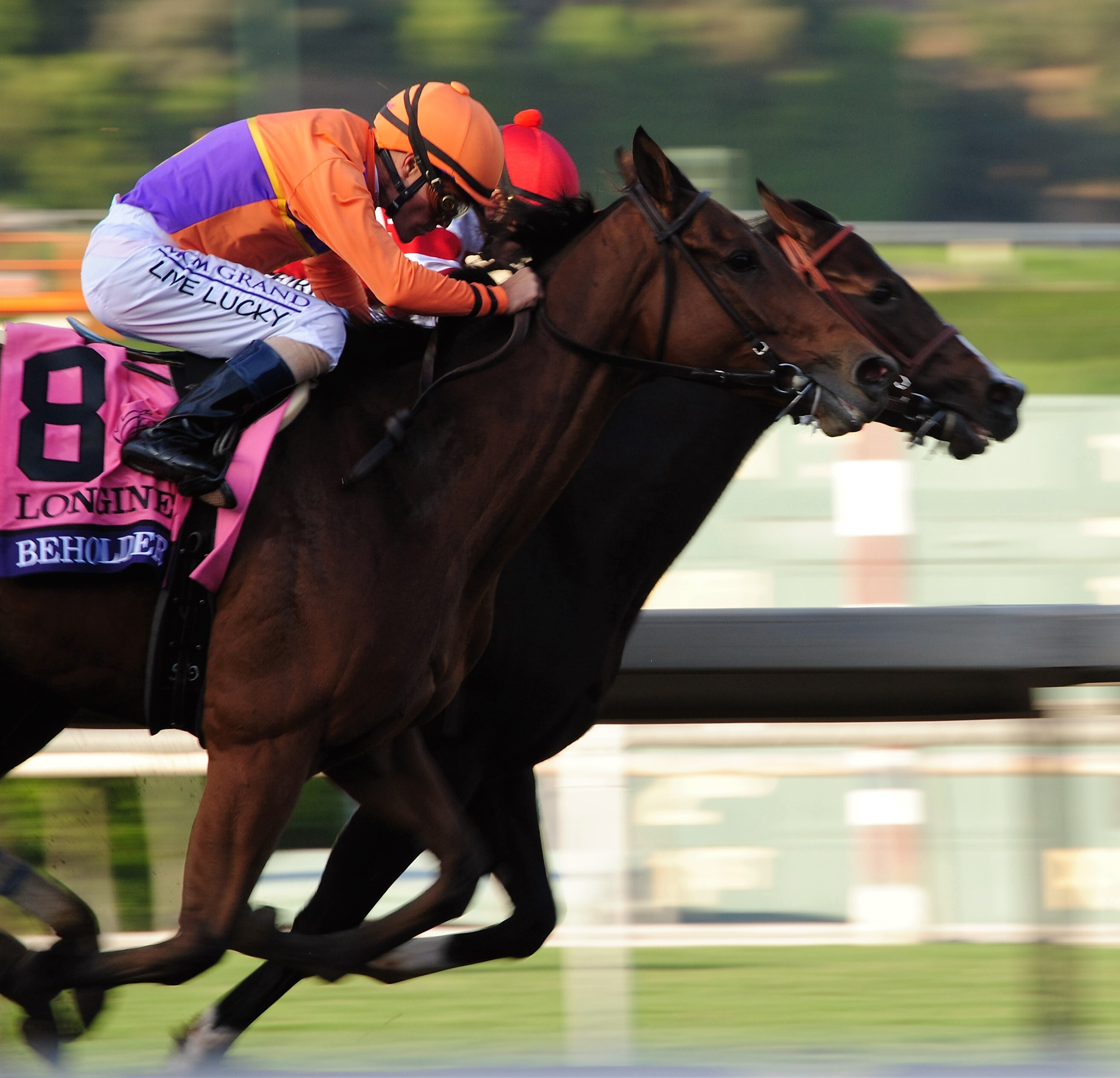 Beholder closes ground relentlessly on Songbird in the Breeders' Cup Distaff